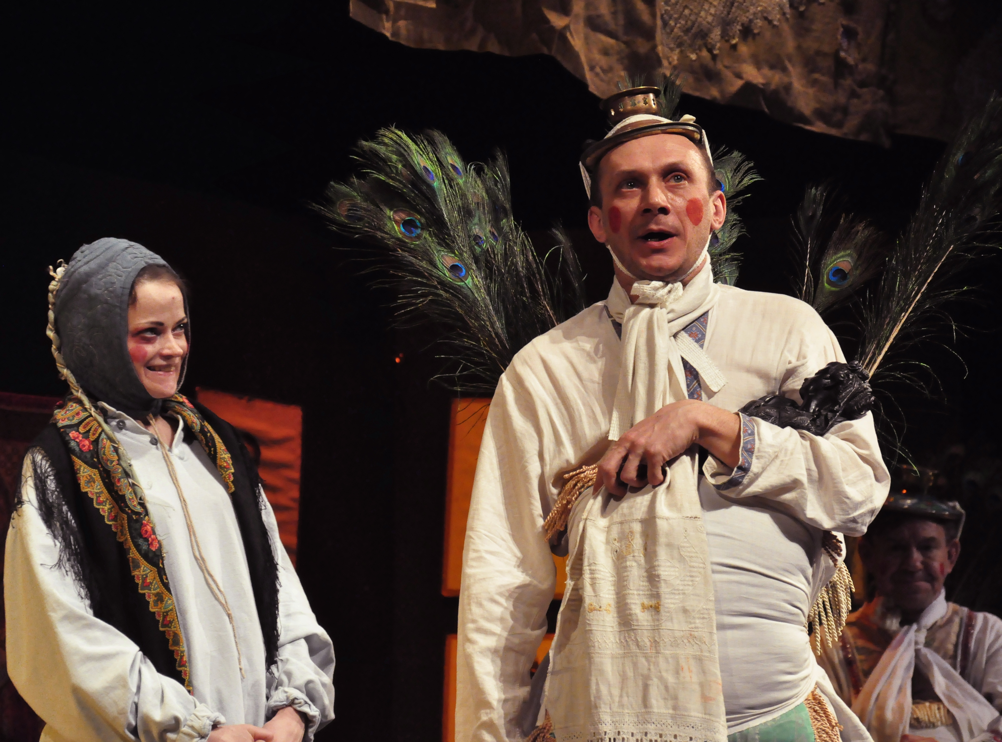 Marriage, Kolyada-theatre in Moscow, January 2014